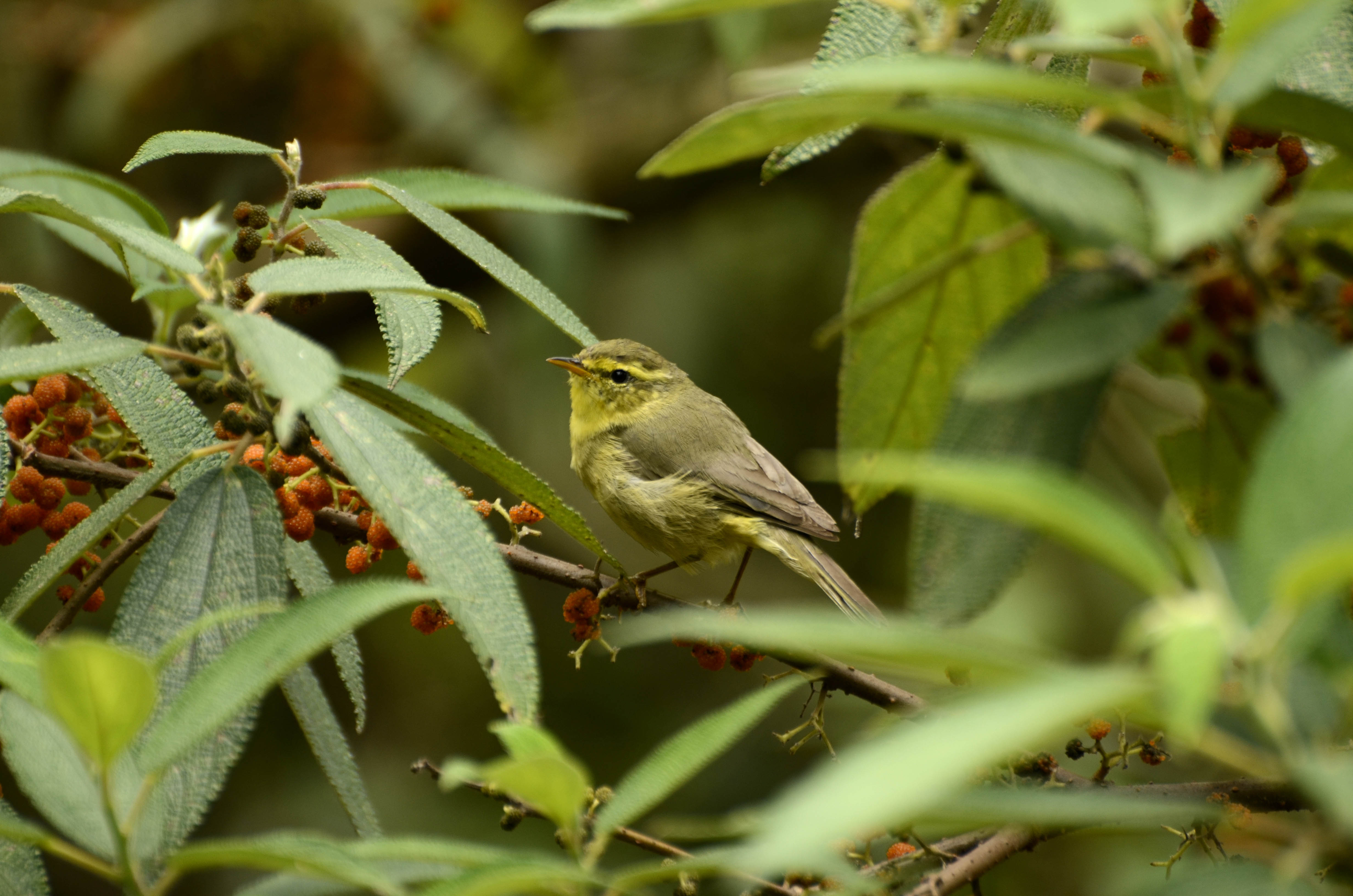 Tickell's Leaf Warbler Phylloscopus affinis from the Anaimalai hills